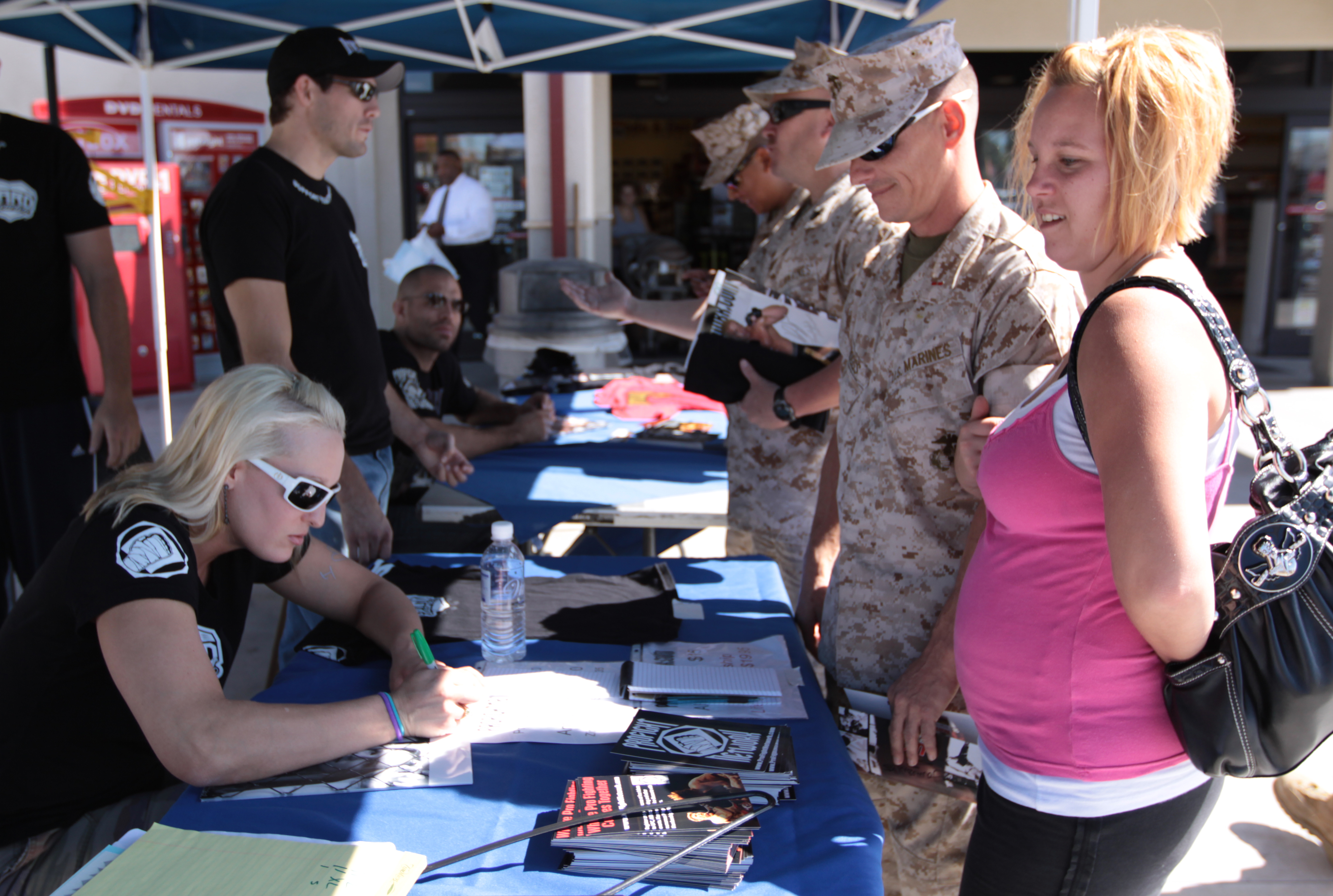 Chief Warrant Officer one Jason Scroggs, communication maintenance officer, Combat Logistics Regiment, and his wife Crystal Scrooge, await their autographed memorabilia from Elaina Maxwell, professional mixed martial arts fighter, during the Profight Network promotions event at Camp Pendleton's Country Store, Oct. 15. MMA fighters Chris Greenman, James Wilks and Ryan Couture were also in attendance at the event.